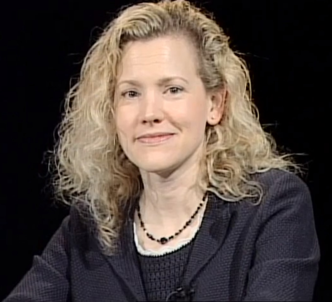 American attorney Jesselyn Radack, Homeland Security Director of the Government Accountability Project, on GAP's Whistleblower TV in 2009.